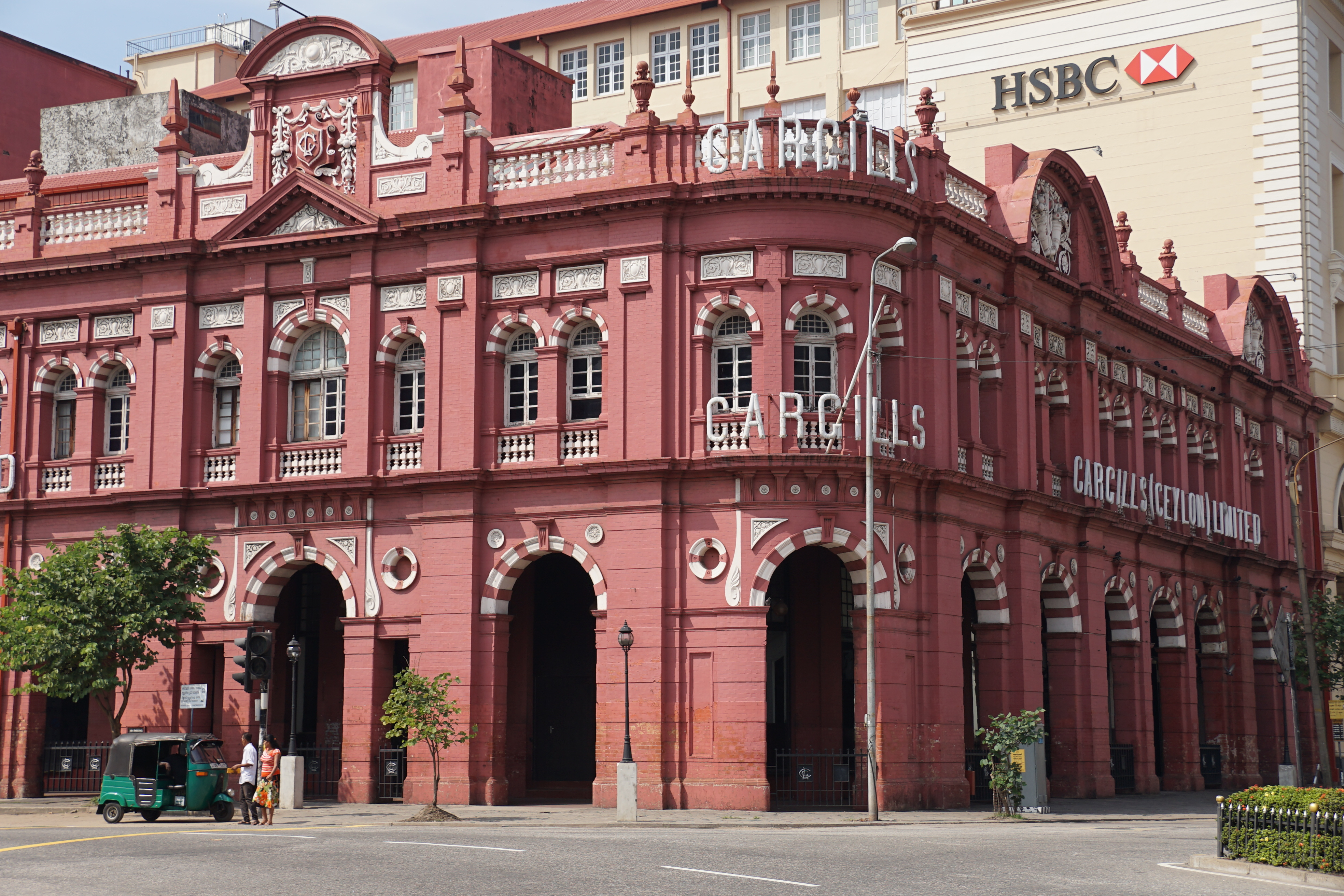 The Cargills' Department Store on York Street, Colombo Fort, was built in 1902 and completed in 1906.